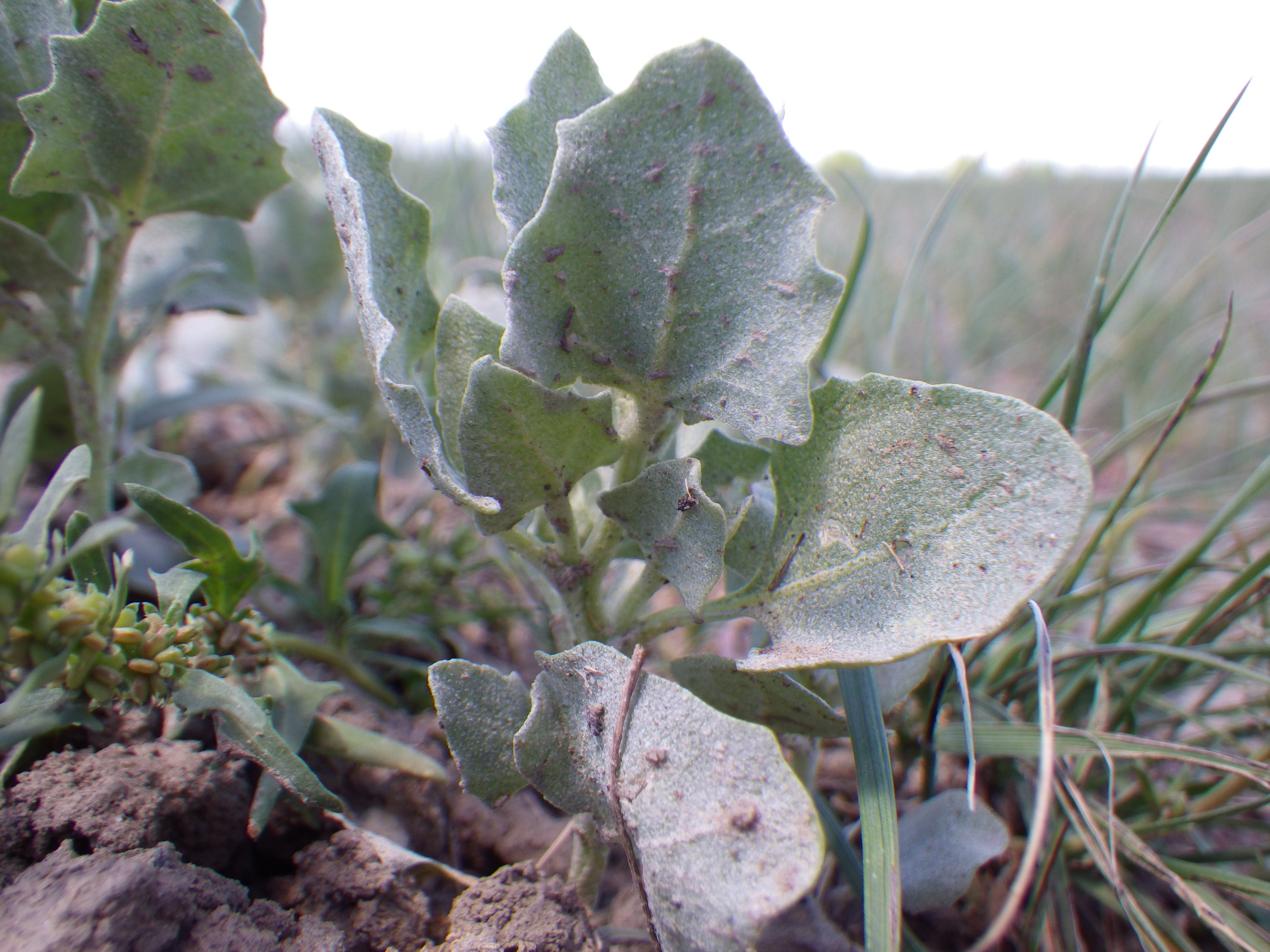 The silvery white somewhat-large leaves are most conspicuous as well as distinctive of this herbaceous species.